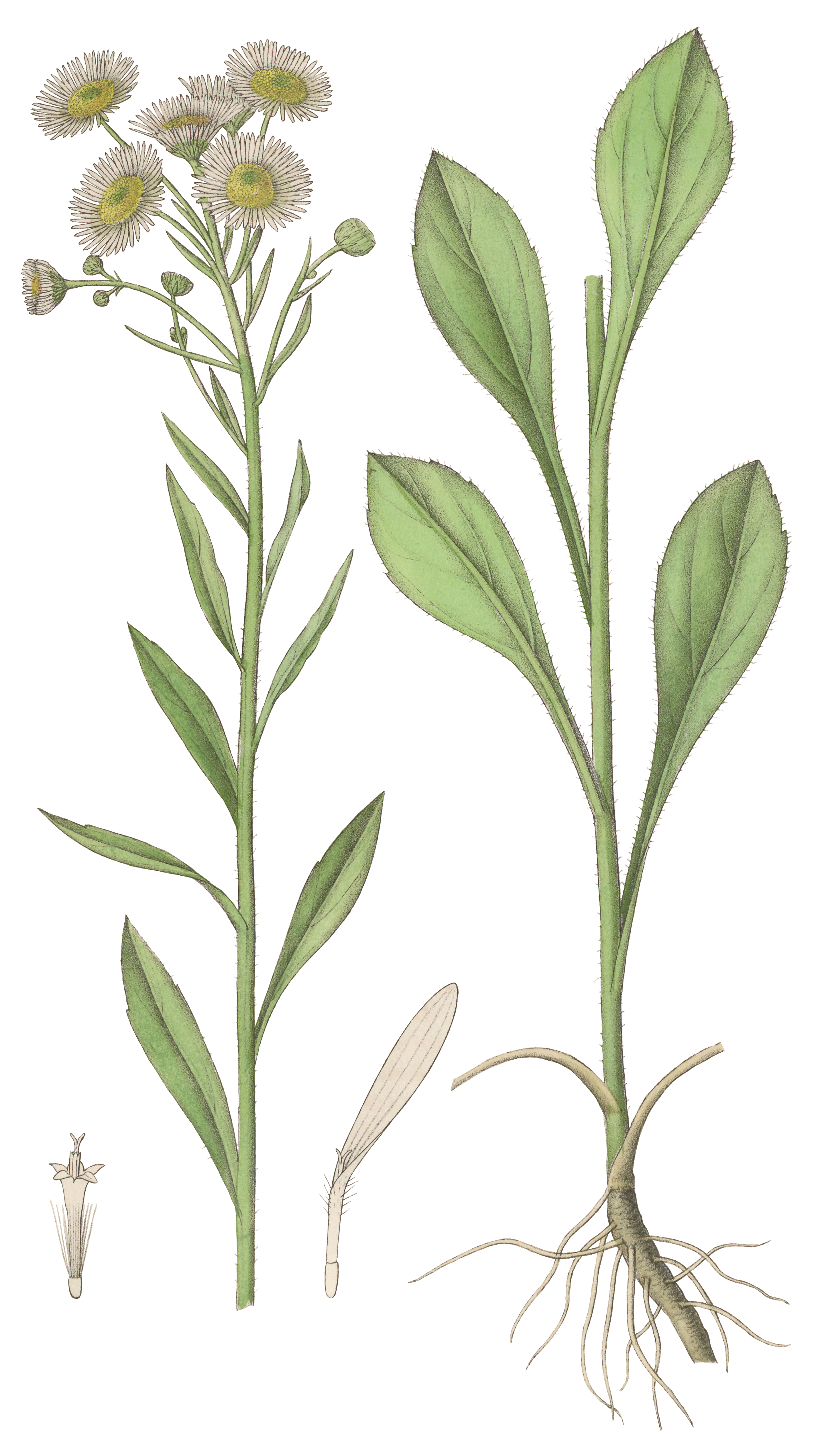 Illustration of Stenactis annua Nees ab Esenb. = Erigeron annuus